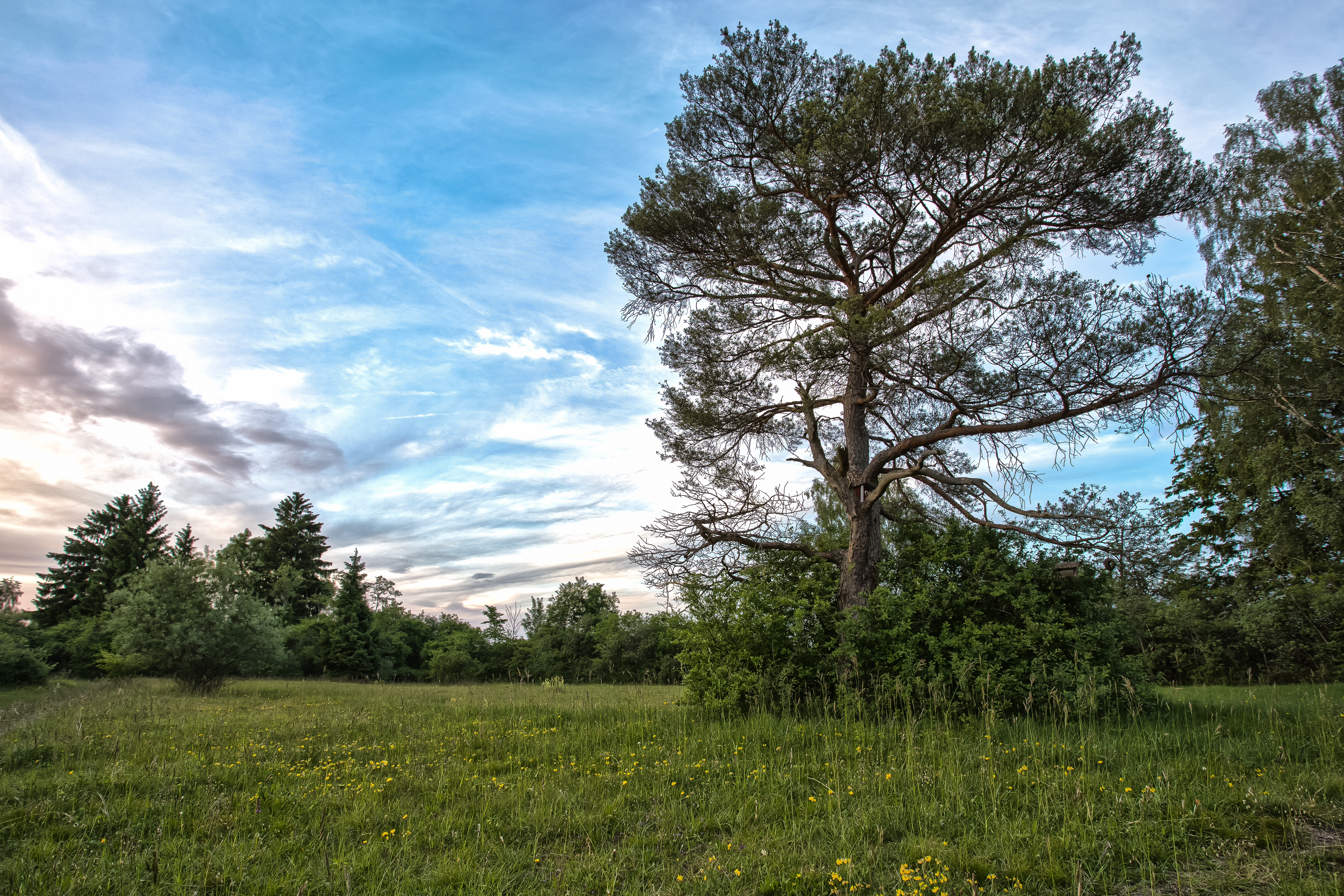 This image shows a tree on a characteristic field of the Kissinger Heide.